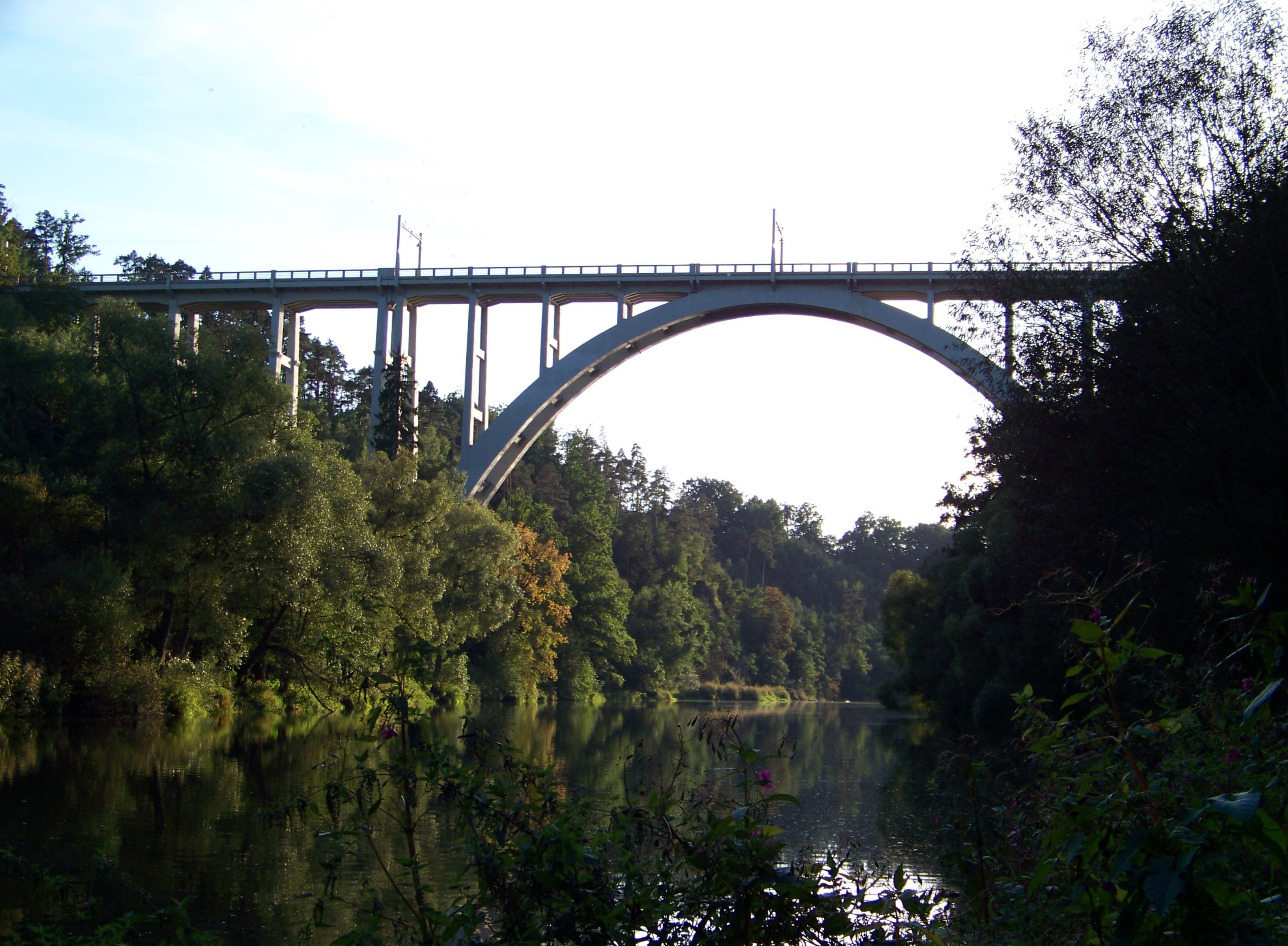 Bechyně, Tábor District, South Bohemian Region, the Czech Republic. Lužnice river, Bechyně bridge Duha (Rainbow).